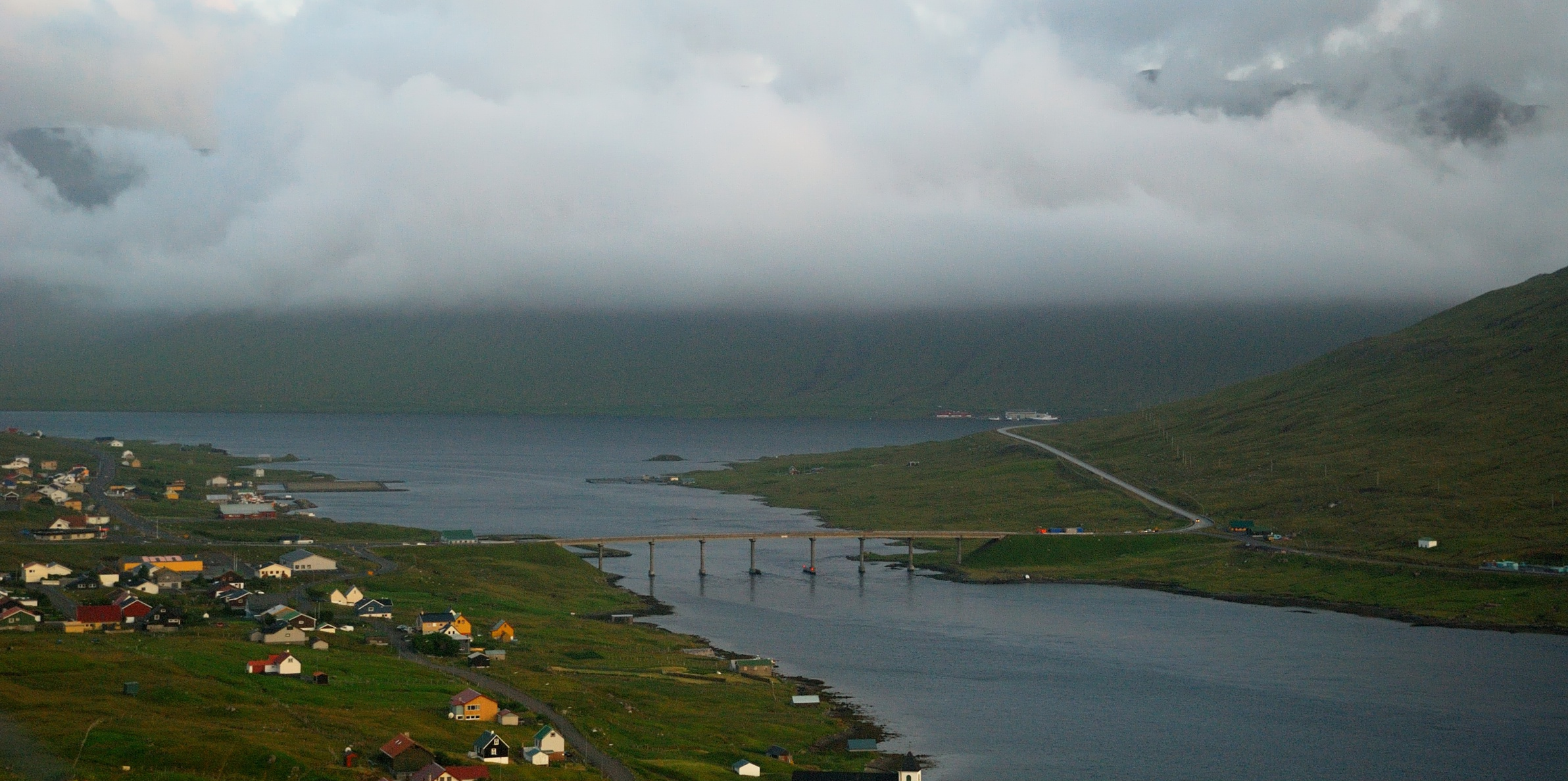 This bridge connects the two largest islands of the Faroe, Streymoy and Eysturoy, crossing a sound that opens into the Atlantic Ocean at both ends. That's why Faroese people say, humorously, that this is the only bridge over the Atlantic Ocean (incidentally the dwellers of the Scottish island Seil make the same claim). Low clouds are very frequent in Faroe Islands.